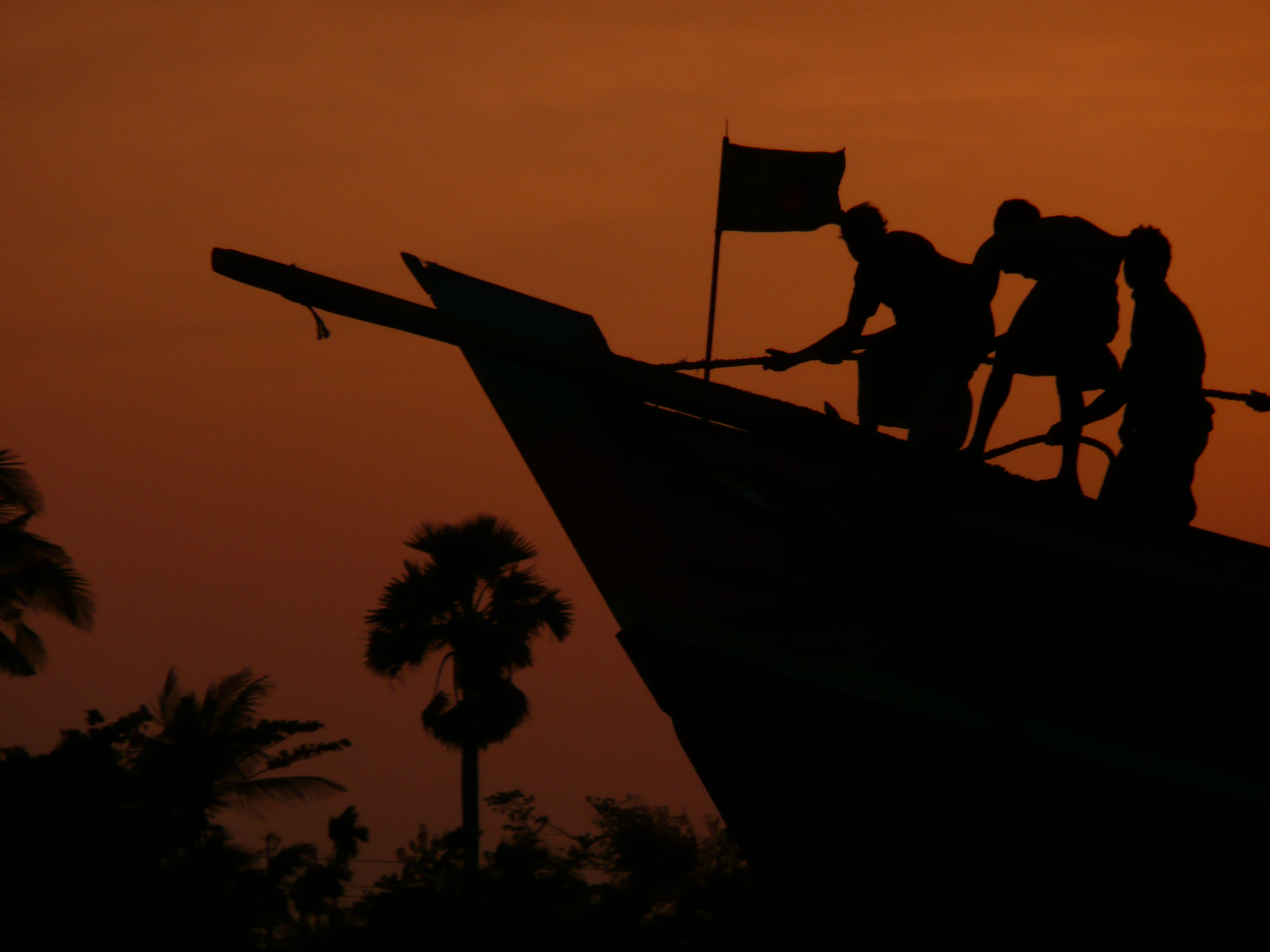 Just outside of Khulna. Wooden ships and manual labor remain the standard in Bangladesh.